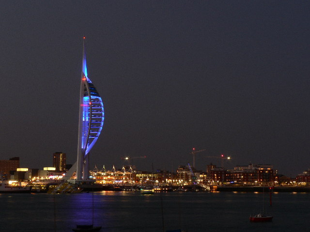 Spinnaker Tower from Gosport. Taken the first night of illumination of the tower - the evening prior to the 2005 International Fleet Review